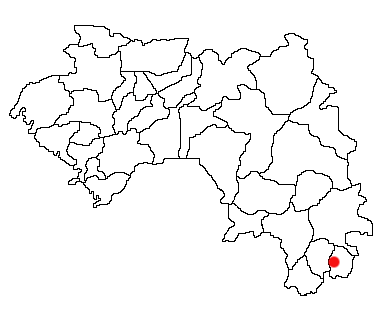 Lola, Guinea Location Map; created with the GIMP. Made by User:Acntx.